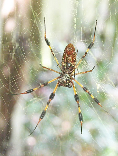 Nephila_clavipes 1281 × 1704 pixel, file size: 316 KB, MIME type: image/jpeg)